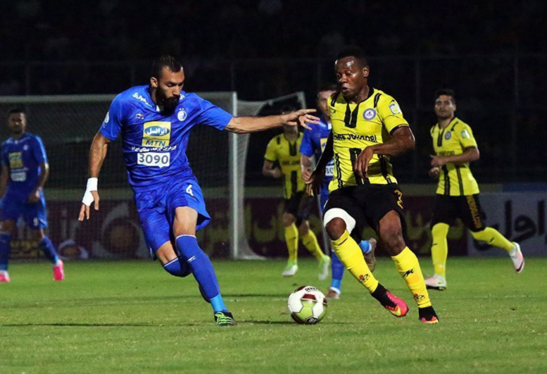 دیدار تیم‌های فوتبال پارس جنوبی جم و استقلال تهران